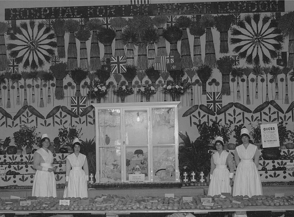 Western Fair, London Ontario. Hospital for the Insane display, Now the London Psychiatric Hospital 850 Highbury Ave.